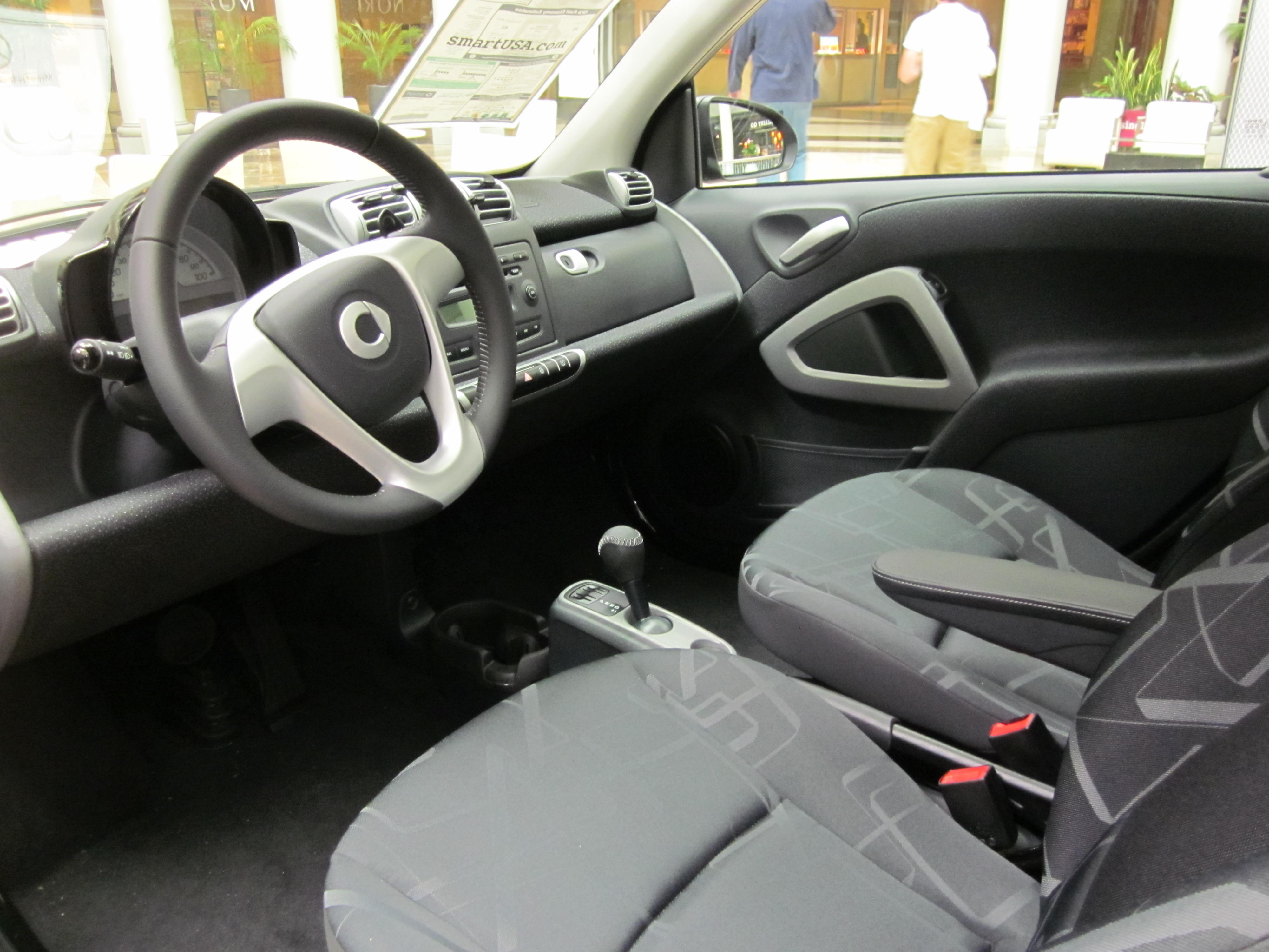 The interior of a 2010 Smart ForTwo Passion Coupe.